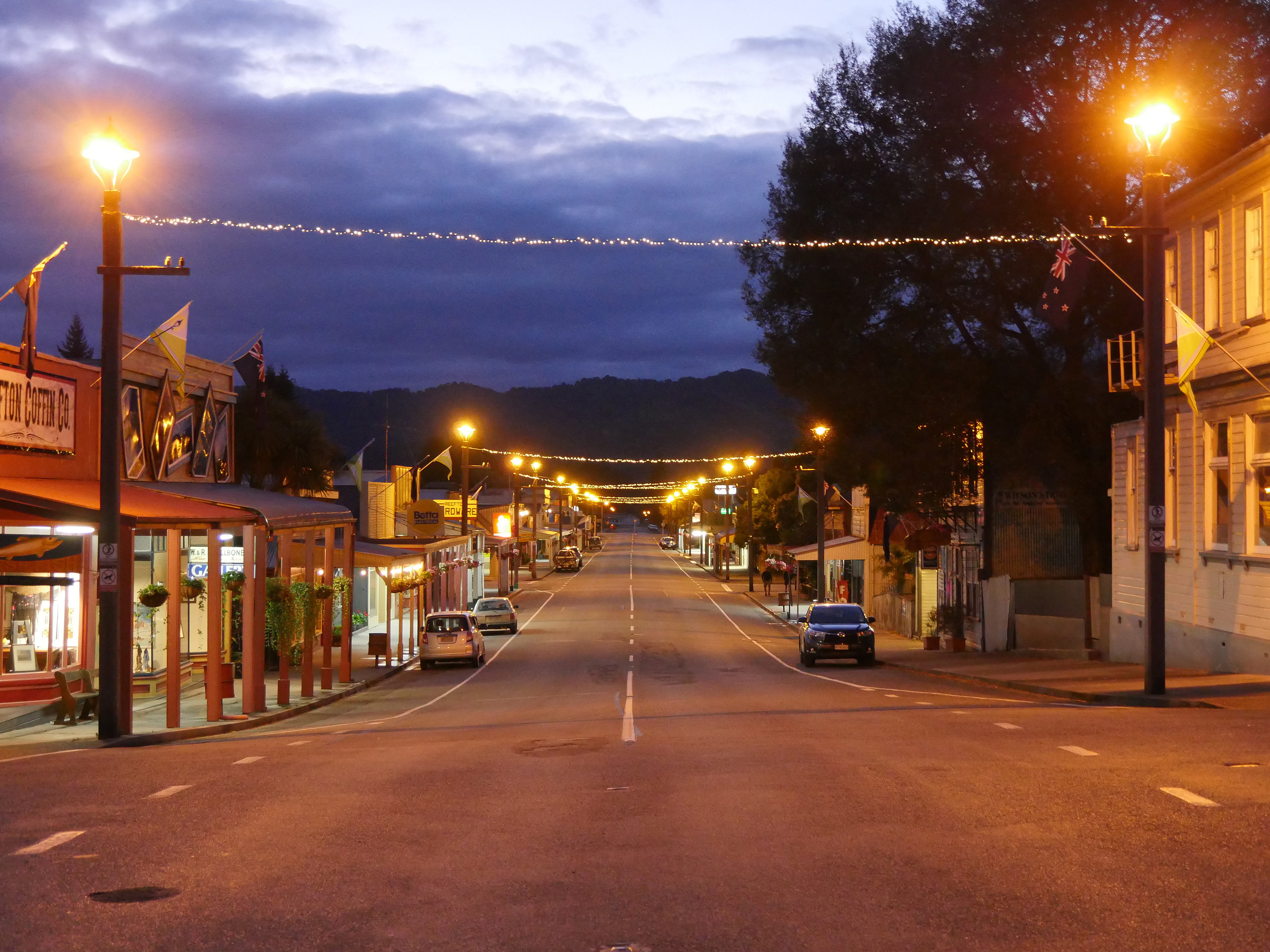 Reefton by night, Buller District, West Coast Region, South Island, New Zealand